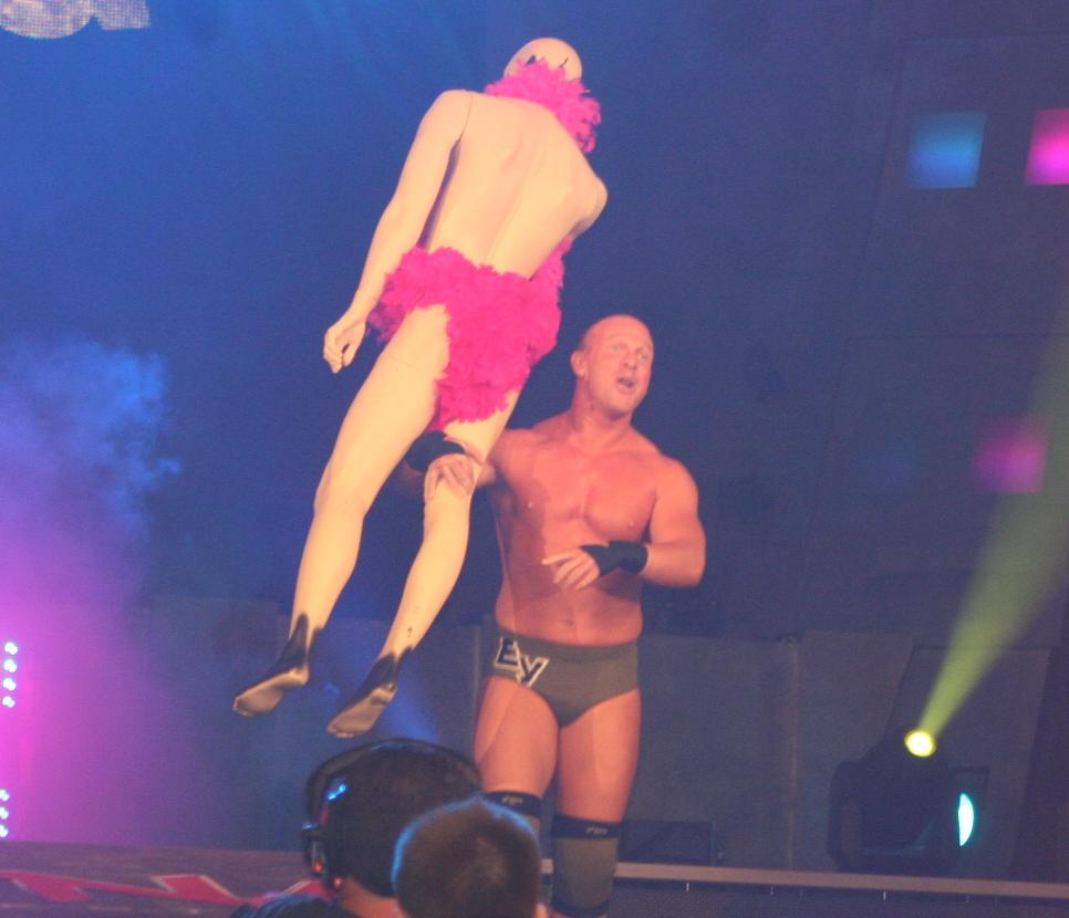 Professional wrestler Eric Young during a TNA Impact! taping.